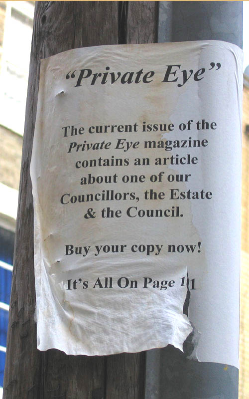 Poster in Southwark commenting on Private Eye coverage of a local issue. Taken by C Ford in Camberwell, 8th June 2004.